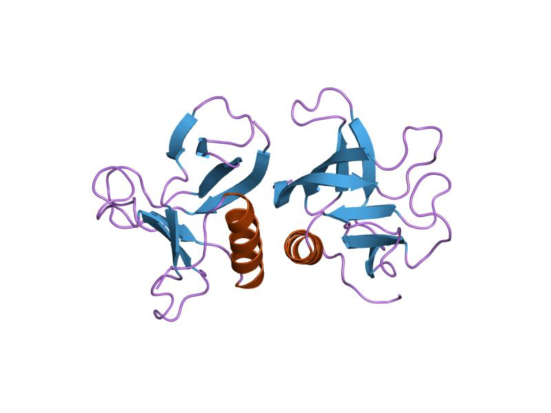 Cartoon representation of the molecular structure of protein registered with 1dyn code.